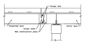 Illustration of a pin and hanger assembly. From the November/December 2000 issue of Public Roads Magazine, a publication of the Federal Highway Administration.